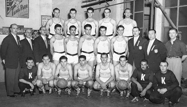 The Argentina national basketball team that won the 1950 FIBA World Championship.